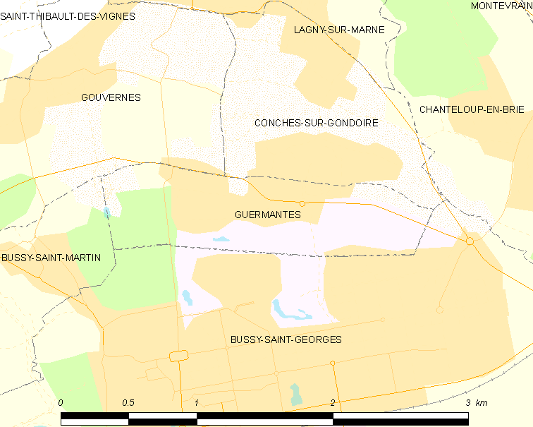 Map of French municipality Guermantes